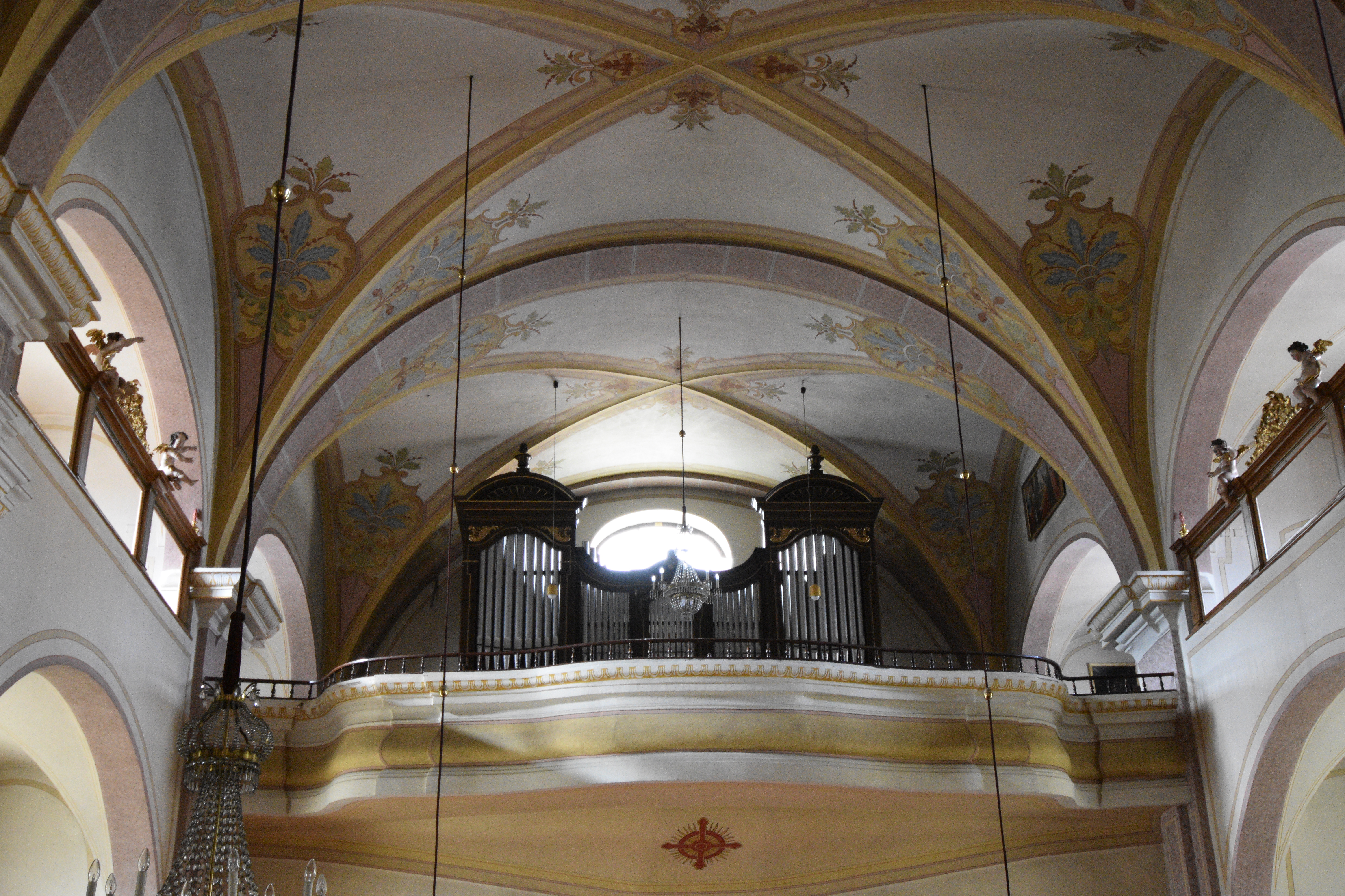 Church St. Ruprecht